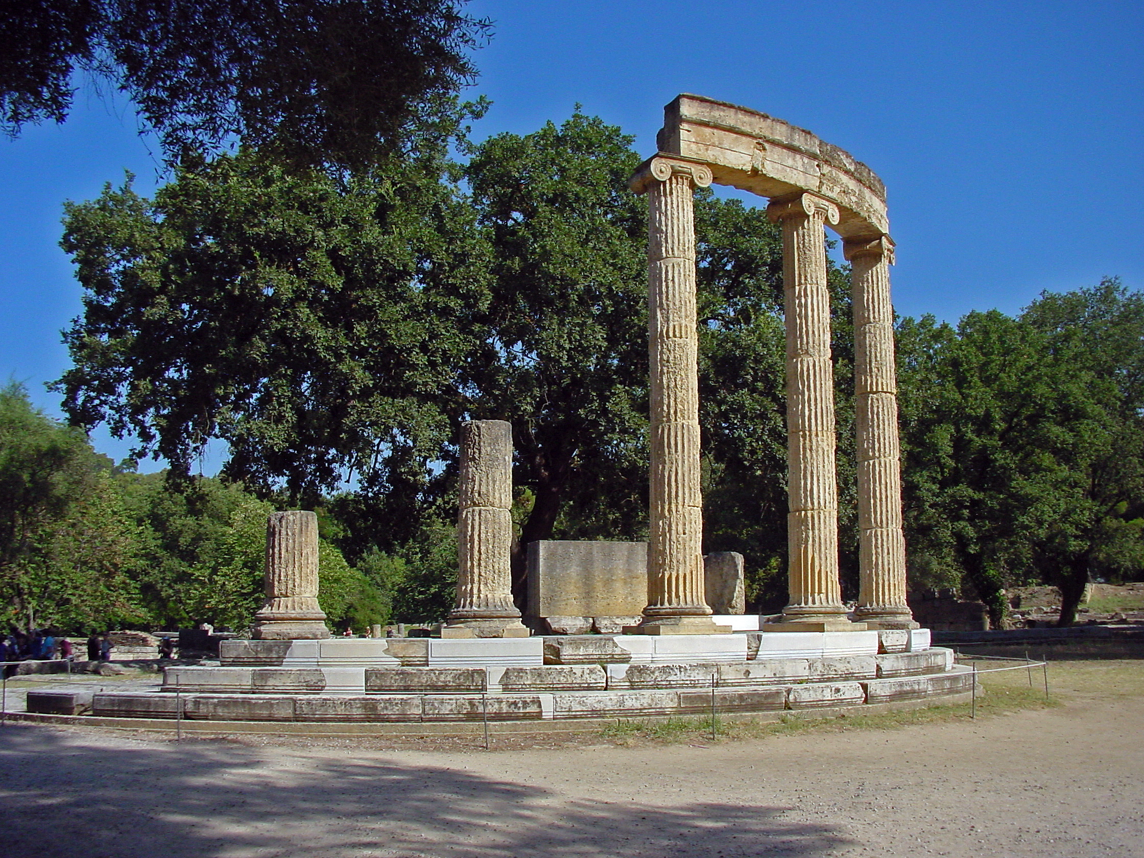 Olympia (12)